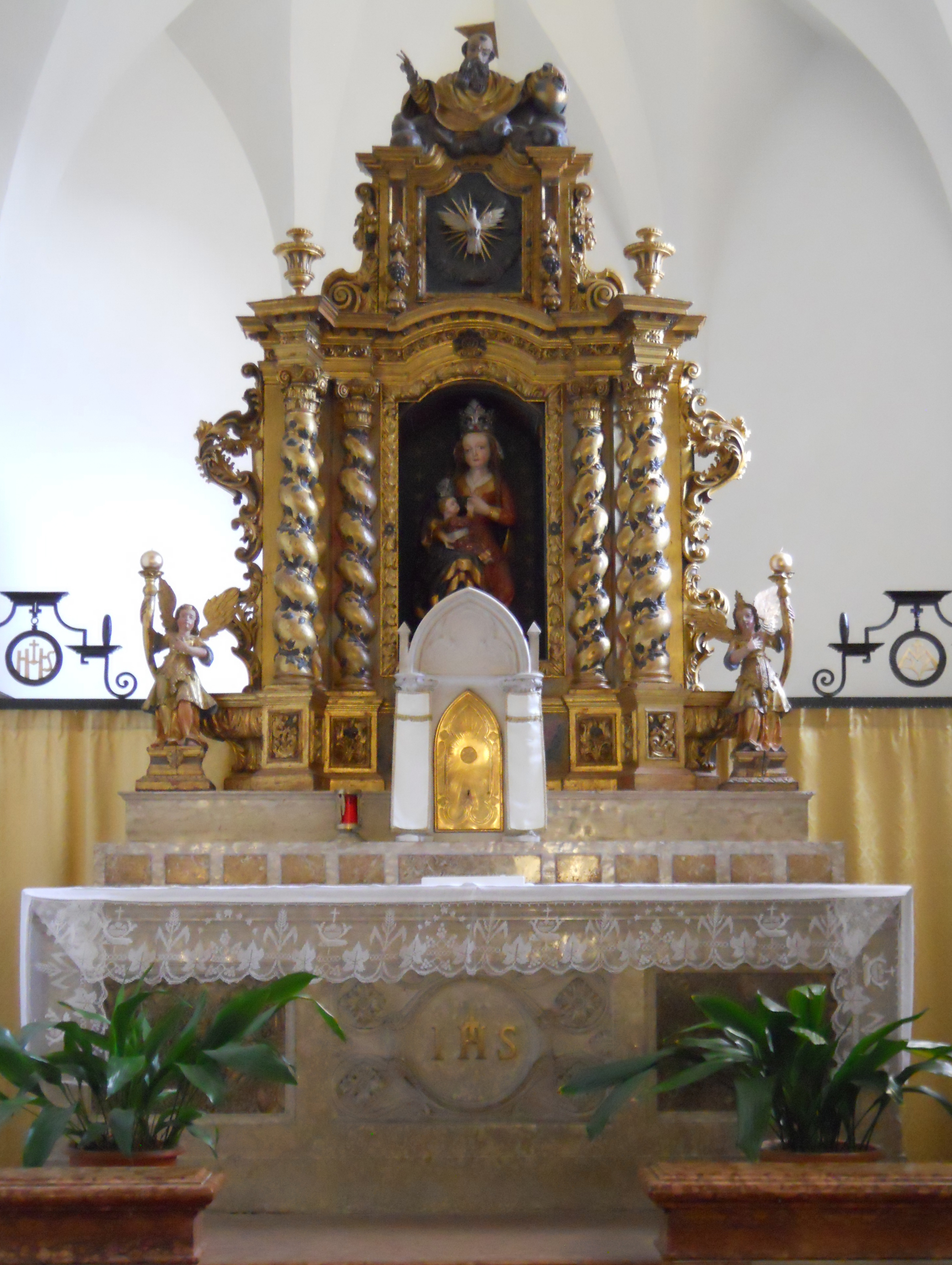 Piazzo, Segonzano - main altar